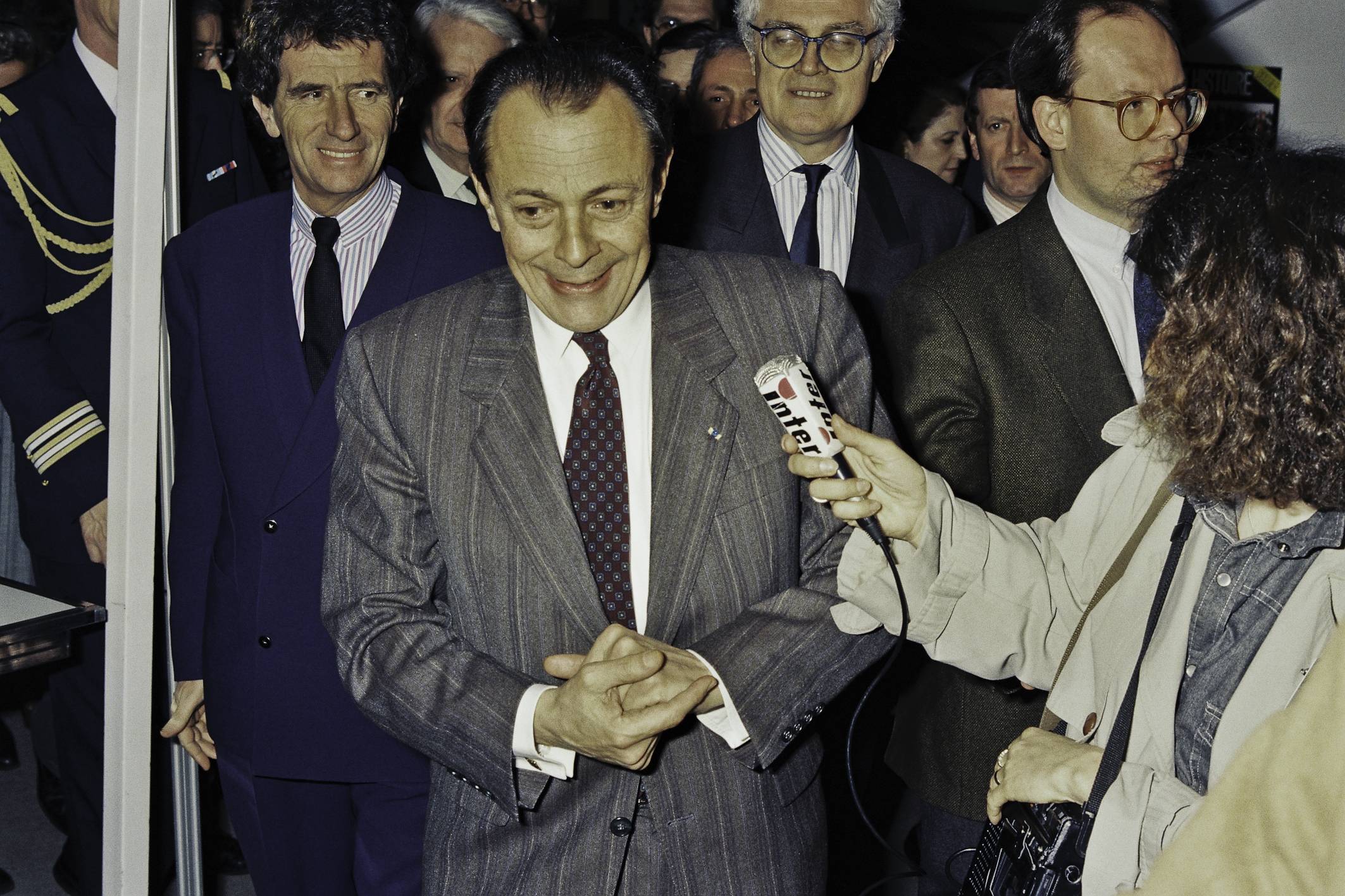 Inauguration du salon du livre